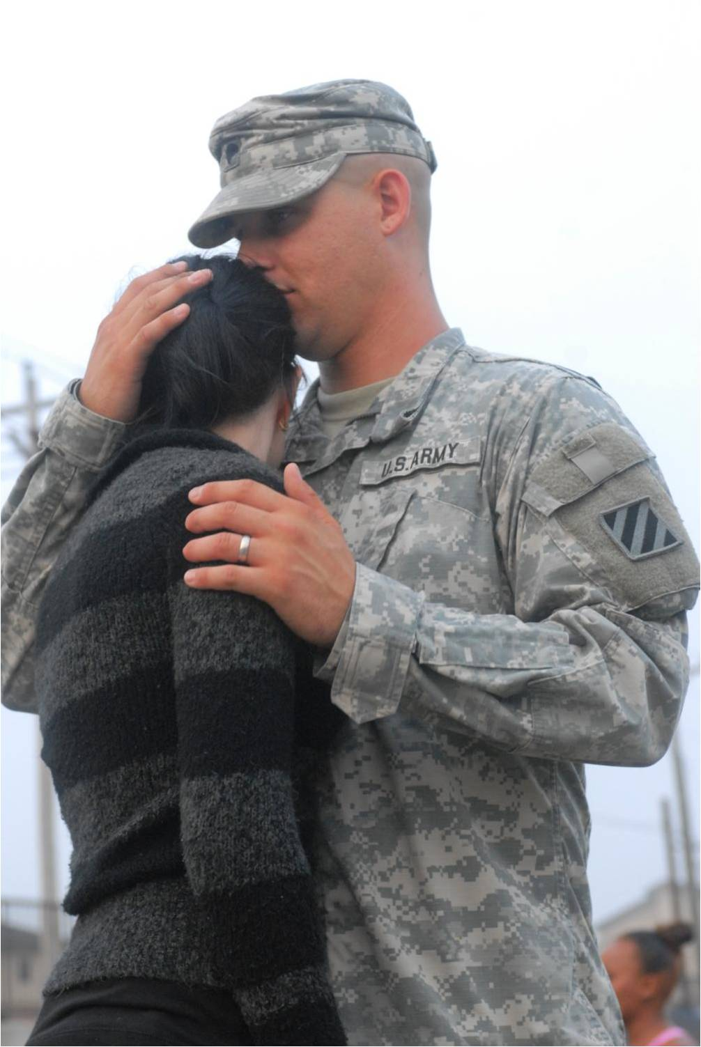 SPC Nathan Stephenson of the 3rd Heavy Brigade Combat Team gives his wife, Moran, a final embrace Friday at Kelley Hill shortly before boarding a bus for Lawson Army Airfield. The brigade is the first to deploy four times to Iraq.